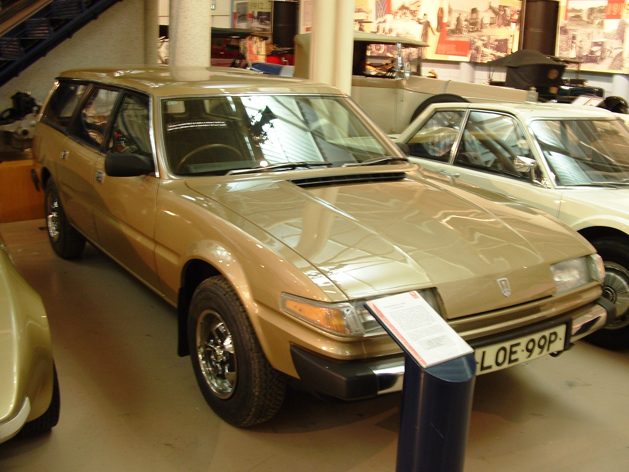 Photographer: Andy Connolly Subject: Rover SD1 Estate Prototype at the Gaydon Motor Heritage Museum